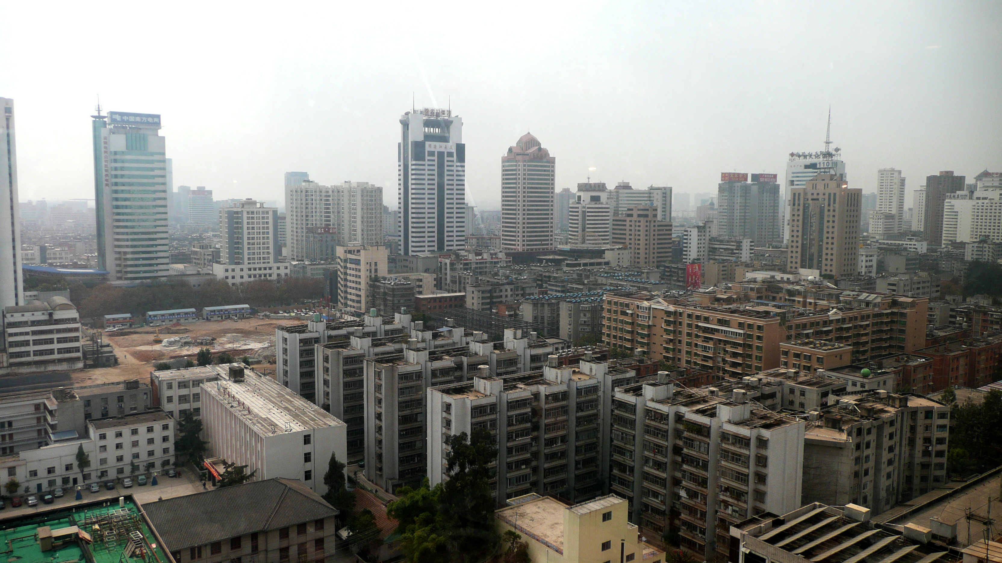 Kunming - Capital of the Chinese province Yunnan